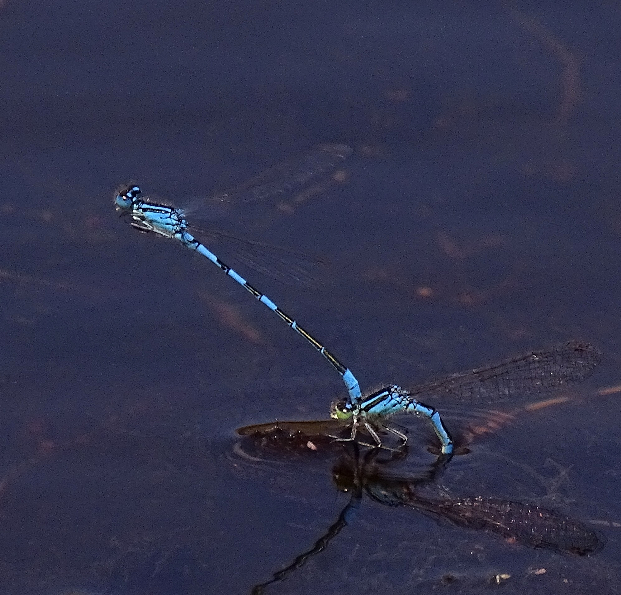 Coenagrion scitulum (Rambur 1842) - polaganje jaja